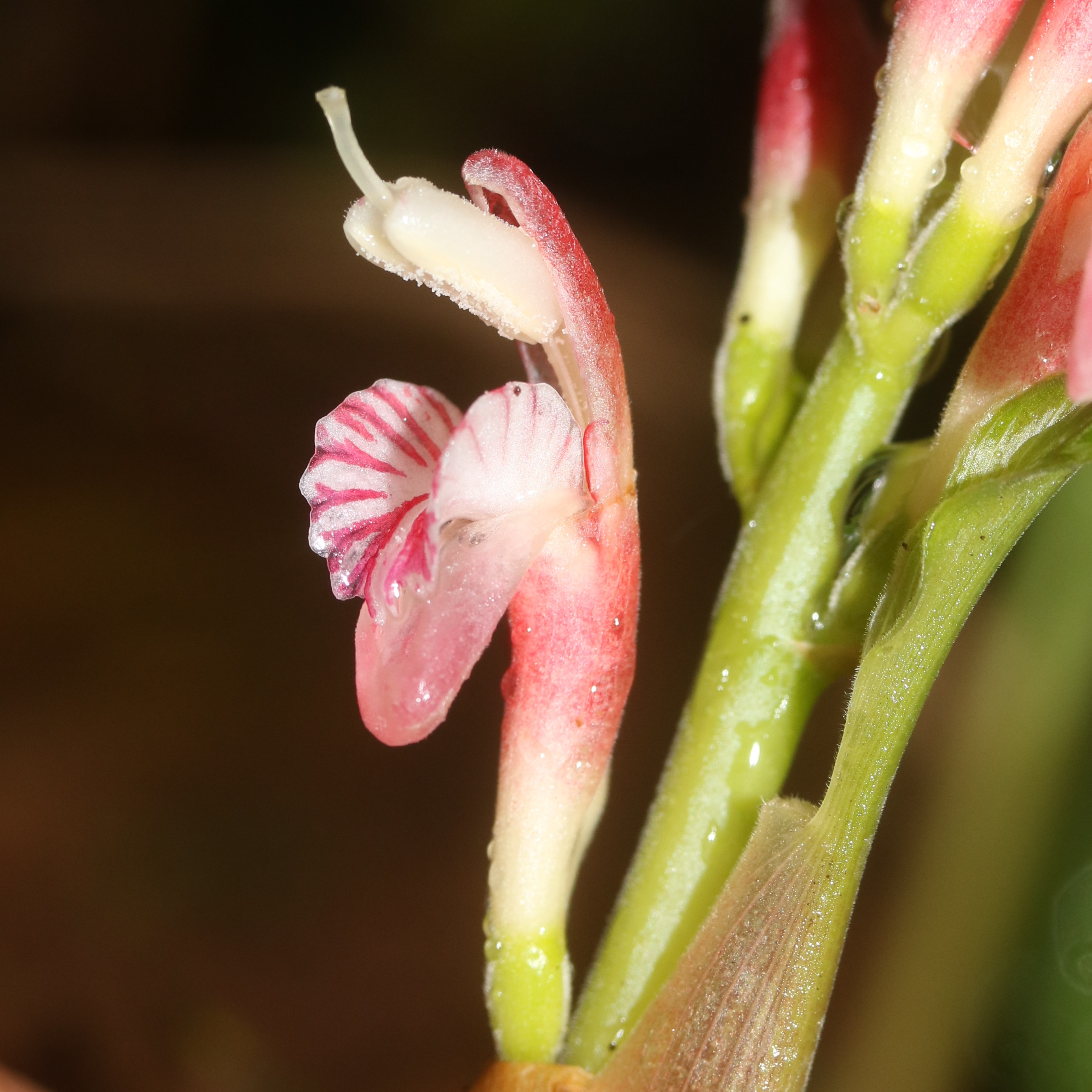 Alpinia japonica in Mount Goi, Aichi Prefecture, Japan.